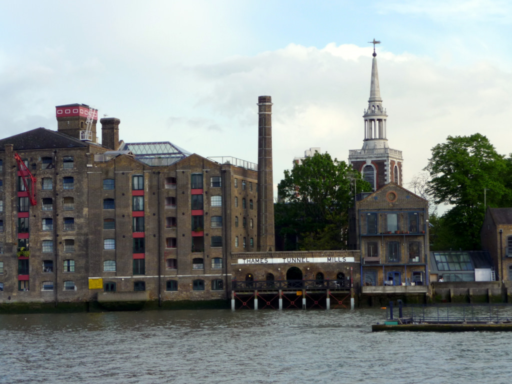 Thames Tunnel Mills, Rotherhithe The Thames Tunnel Mills as seen from the River Thames. The tower of St Mary the Virgin can be seen on the right.